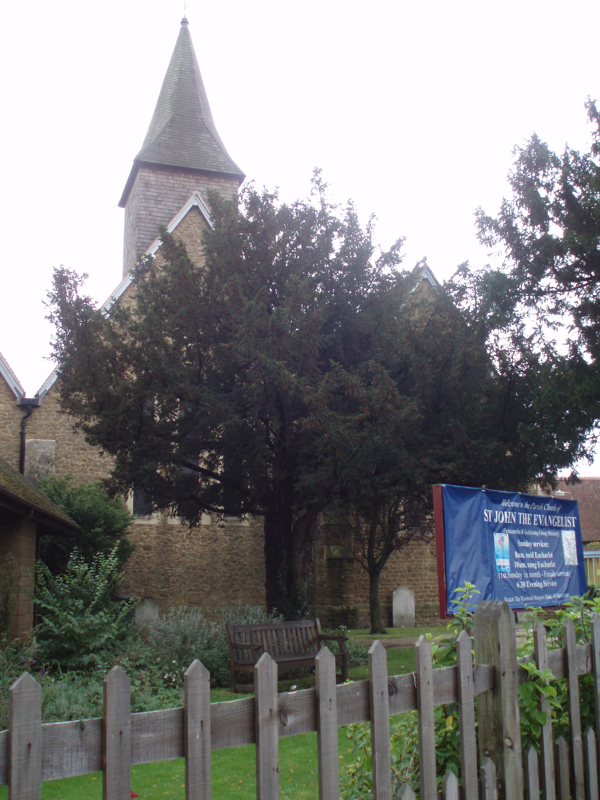 Photo taken by M.Eyre, 29th Sept 2007